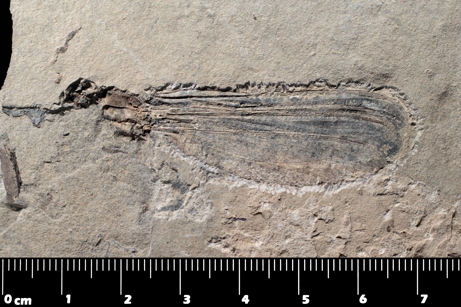 The Stenolestes fischeri holotype specimen with direct lighting. Chattian, Oligocene; Malvezy, Narbonne, Aude, France Muséum national d'Histoire naturelle specimen MNHN.F.R06670